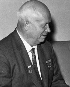 Nikita Khrushchev in Vienna (during the meeting with John F. Kennedy).